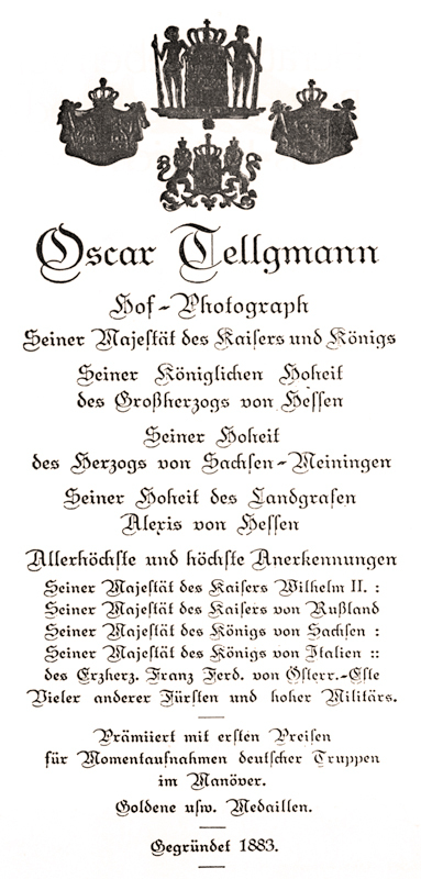 Reverse of a photograph by Oscar Tellgmann